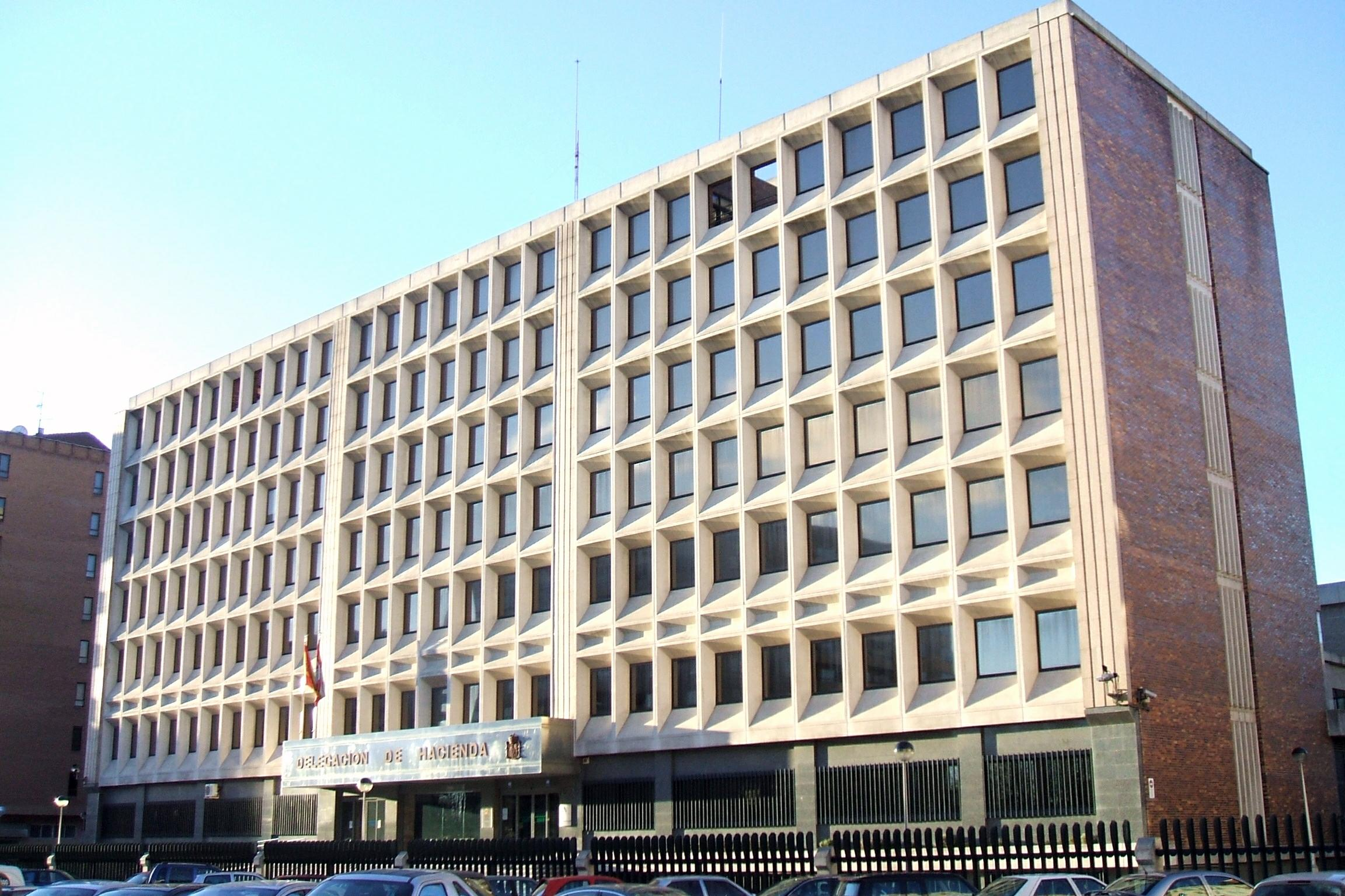 Edificio de la delegación de Hacienda en Burgos (Castilla y León, España)